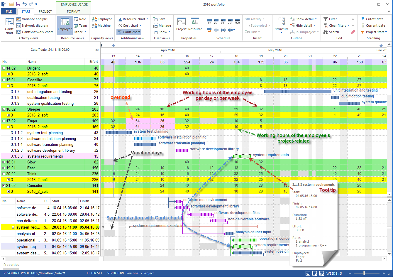 Rillsoft Project showing Personnel placement planning